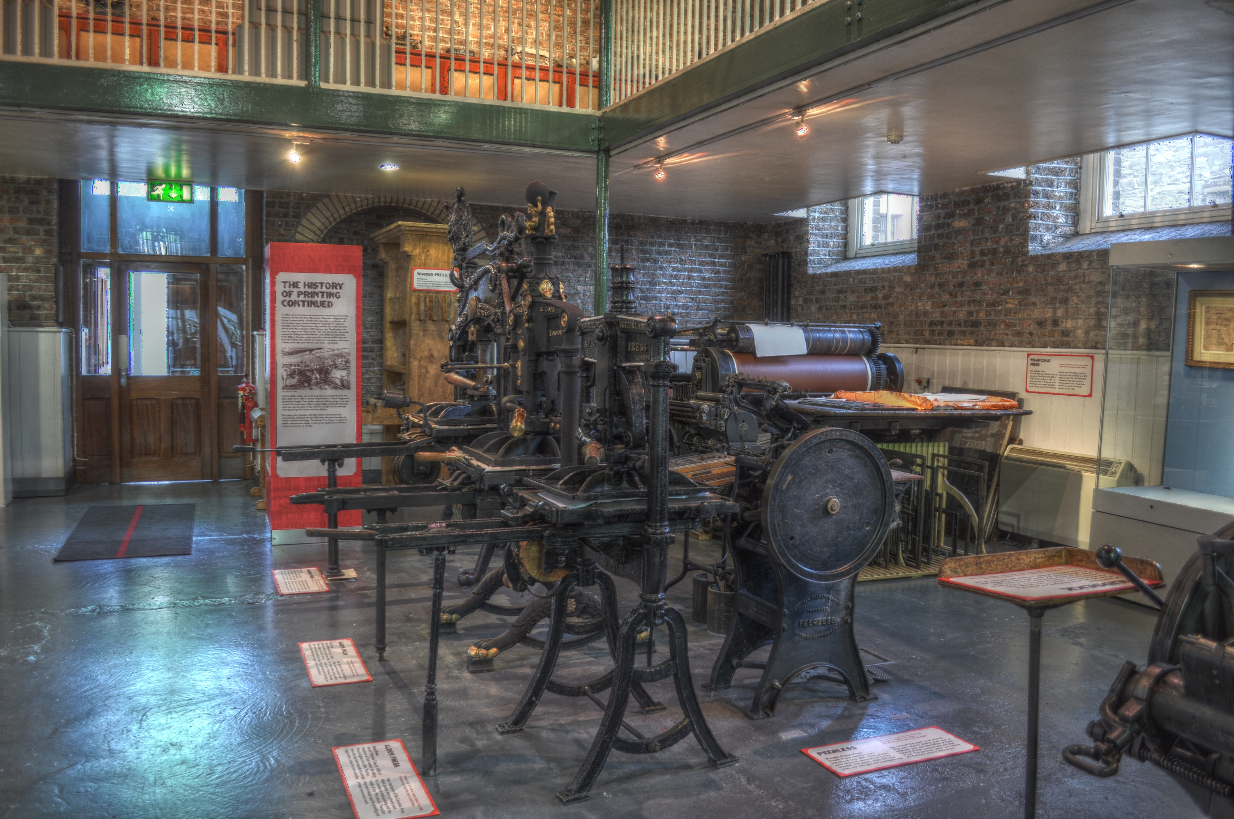 Camera: Nikon D5000 Lens: 18-55mm Software: LuminanceHDR (Mantiuk'06)